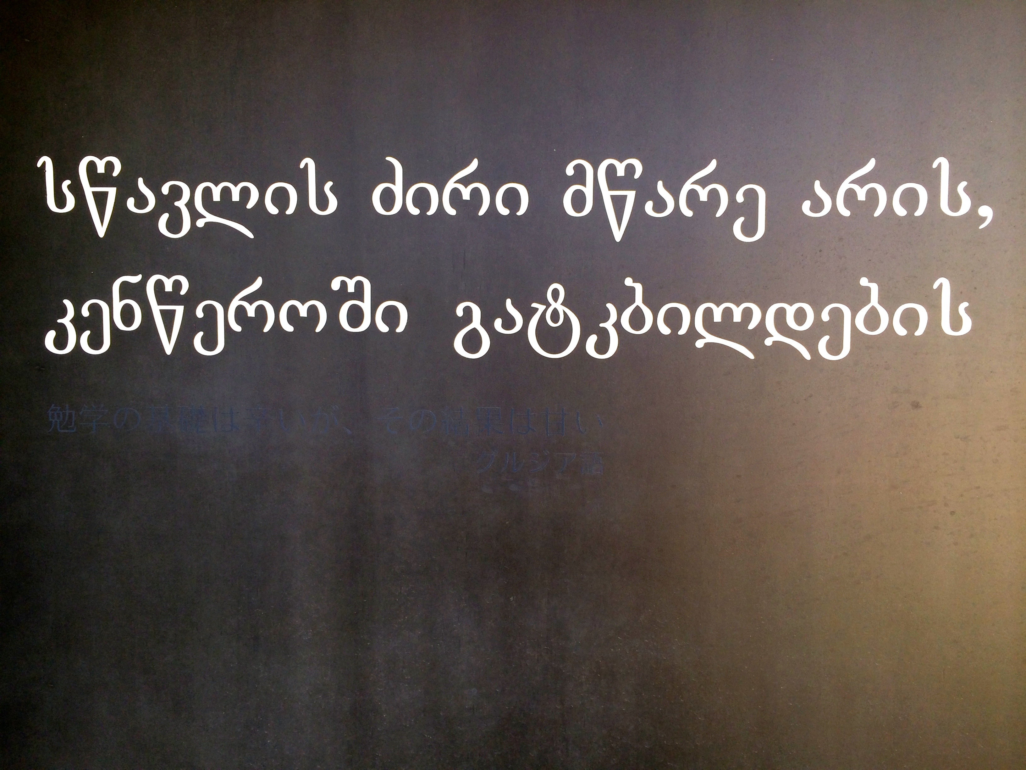 Asian Characters at Toyo Bunko Museum in Bunkyo, Tokyo / Georgian